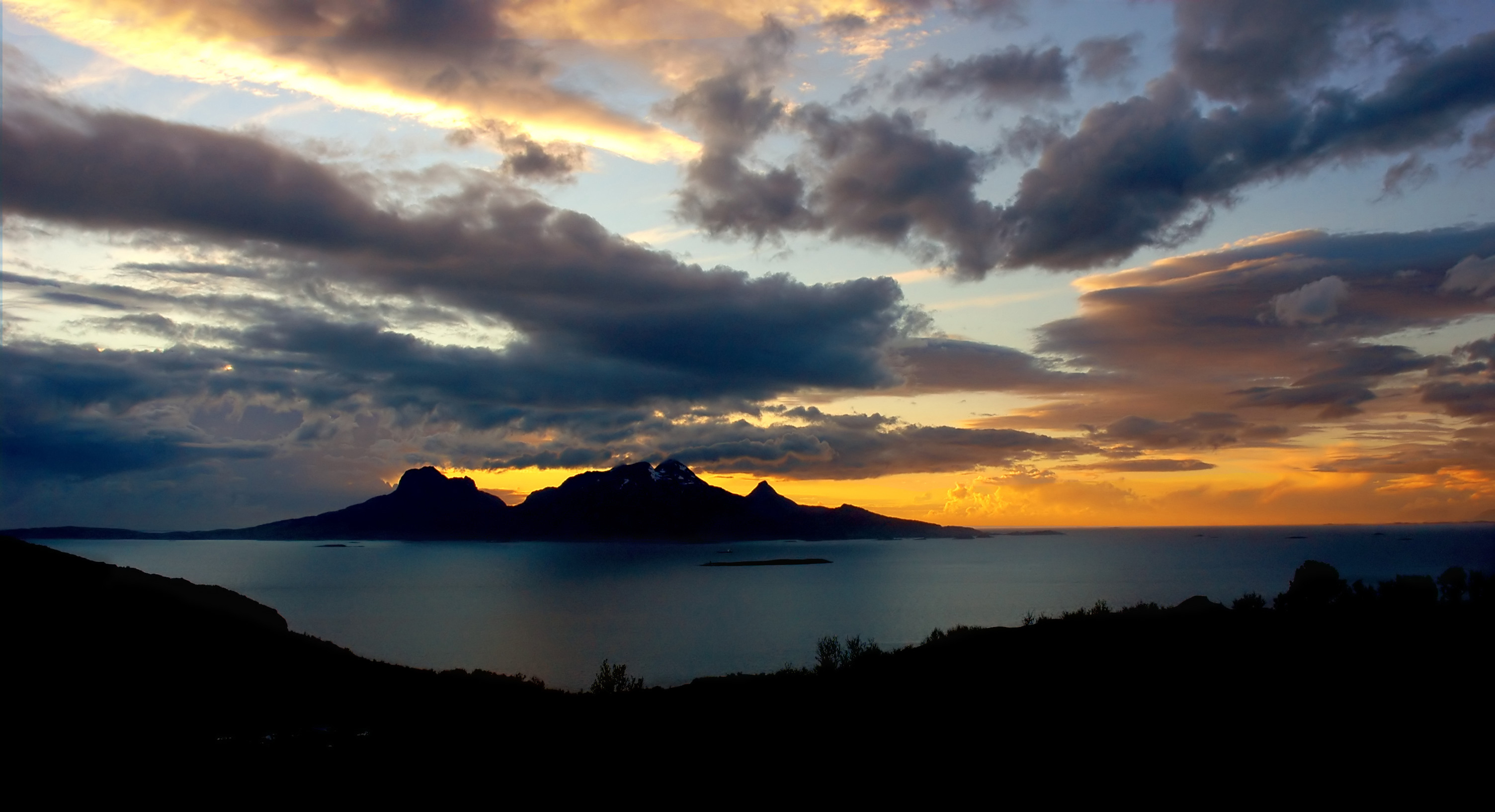 Photo of Landegode, taken from Geitvågen, Bodø, Norway, 2010.